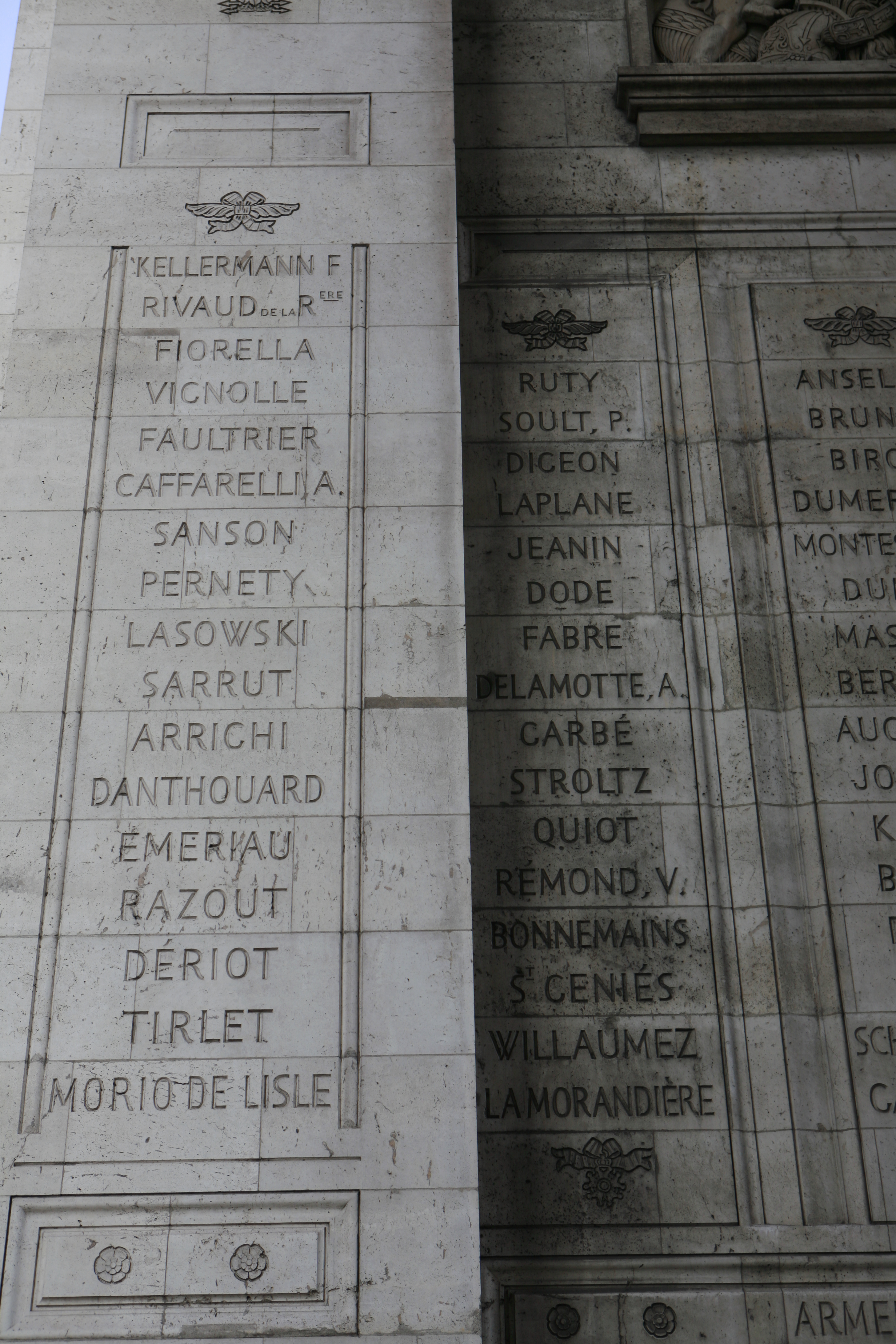 Inscriptions of the Arc de Triomphe. Southern pillar, Columns 21, 22.